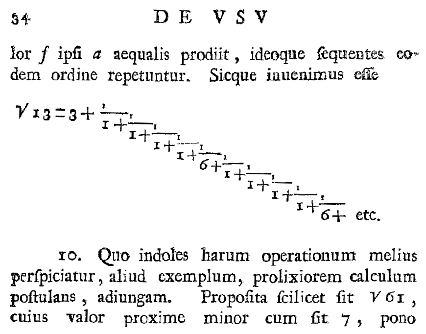 Scan of continued fraction in Euler' De usu novi algorithmi in problemate Pelliano solvendo